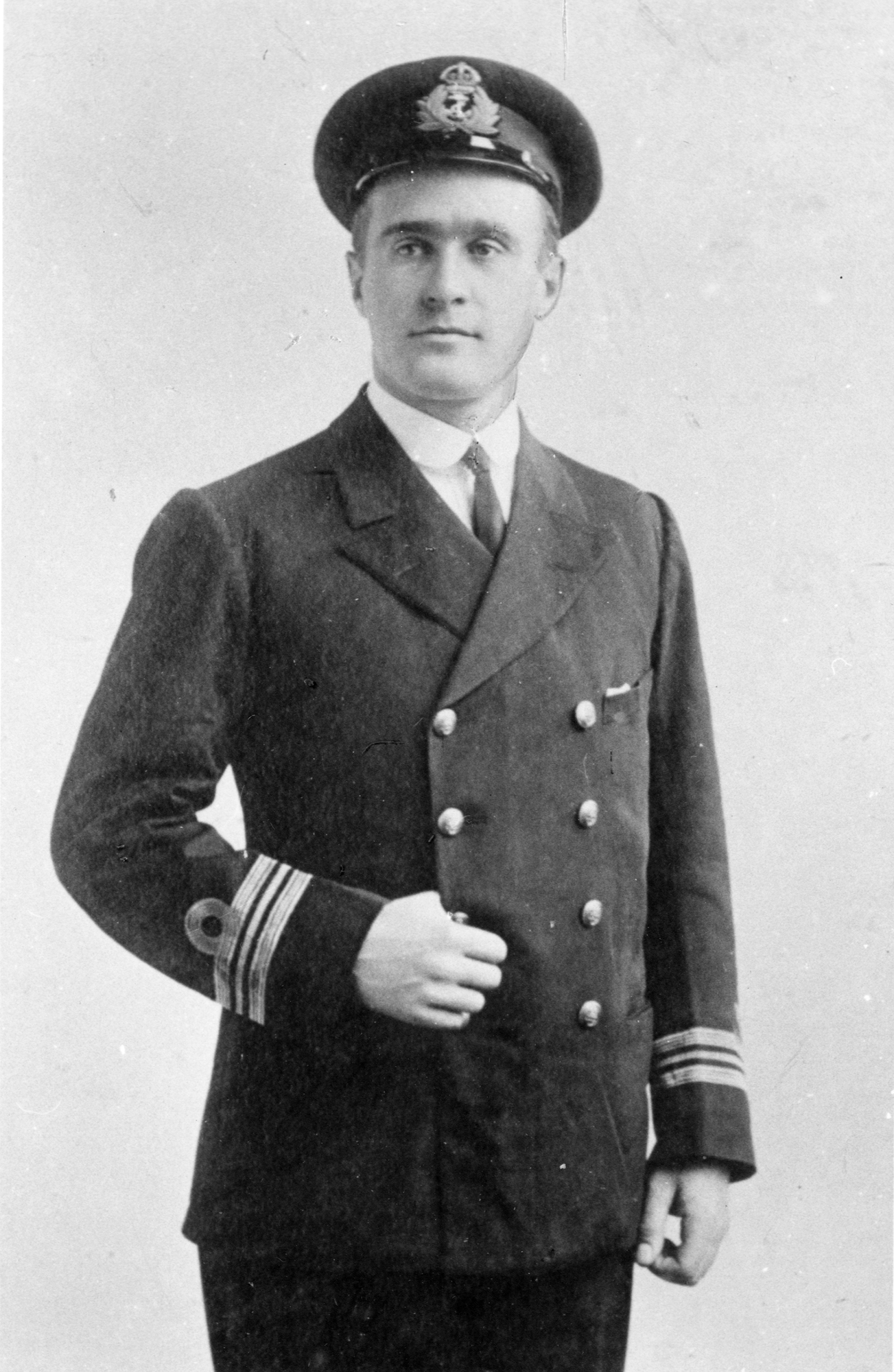 Lieutenant Commander Geoffrey Layton (Photo: Royal Danish Naval Museum) He was interned in Denmark in 1915.